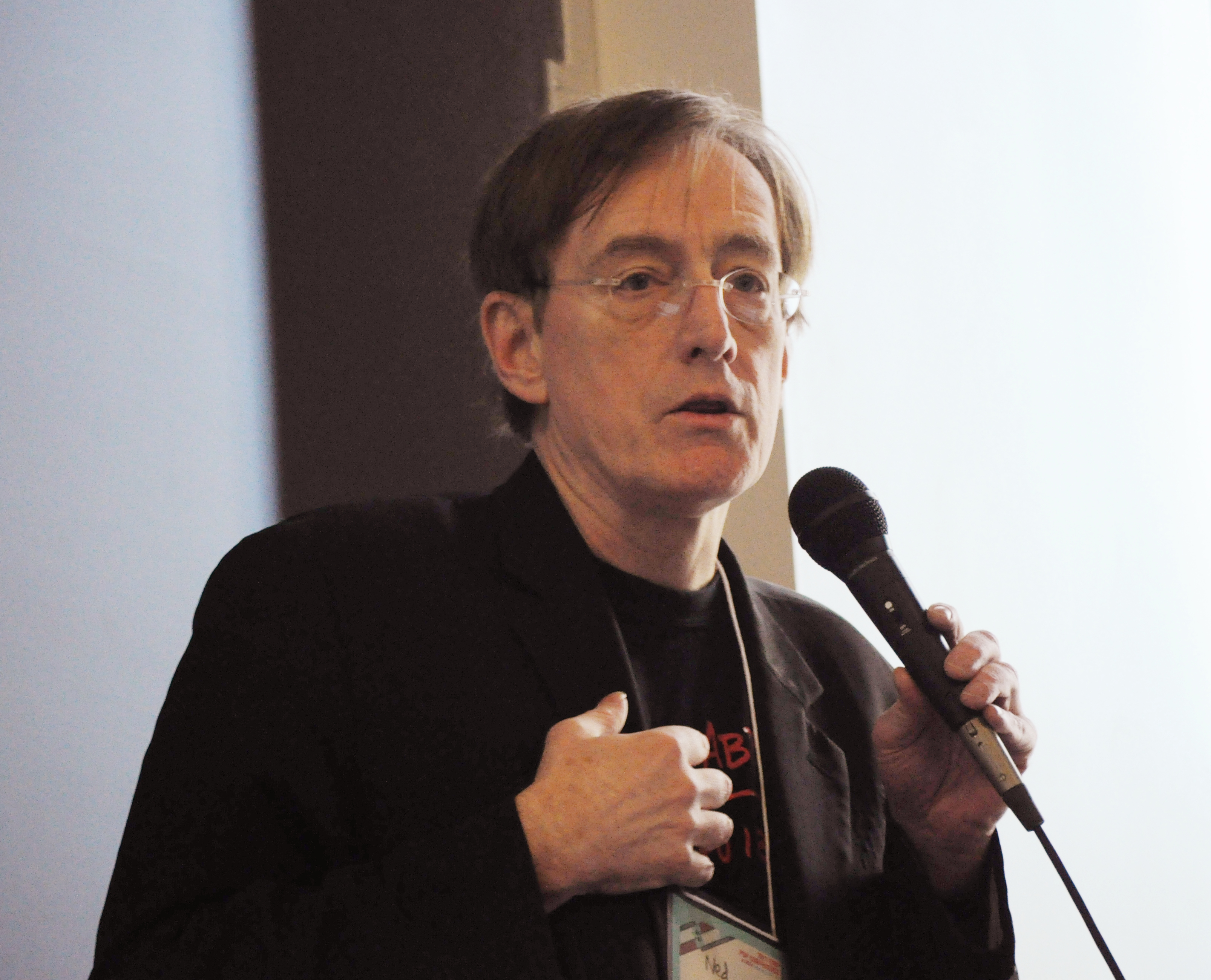 American composer, musician, record producer and musicologist Ned Sublette at the 2011 Pop Conference at UCLA.